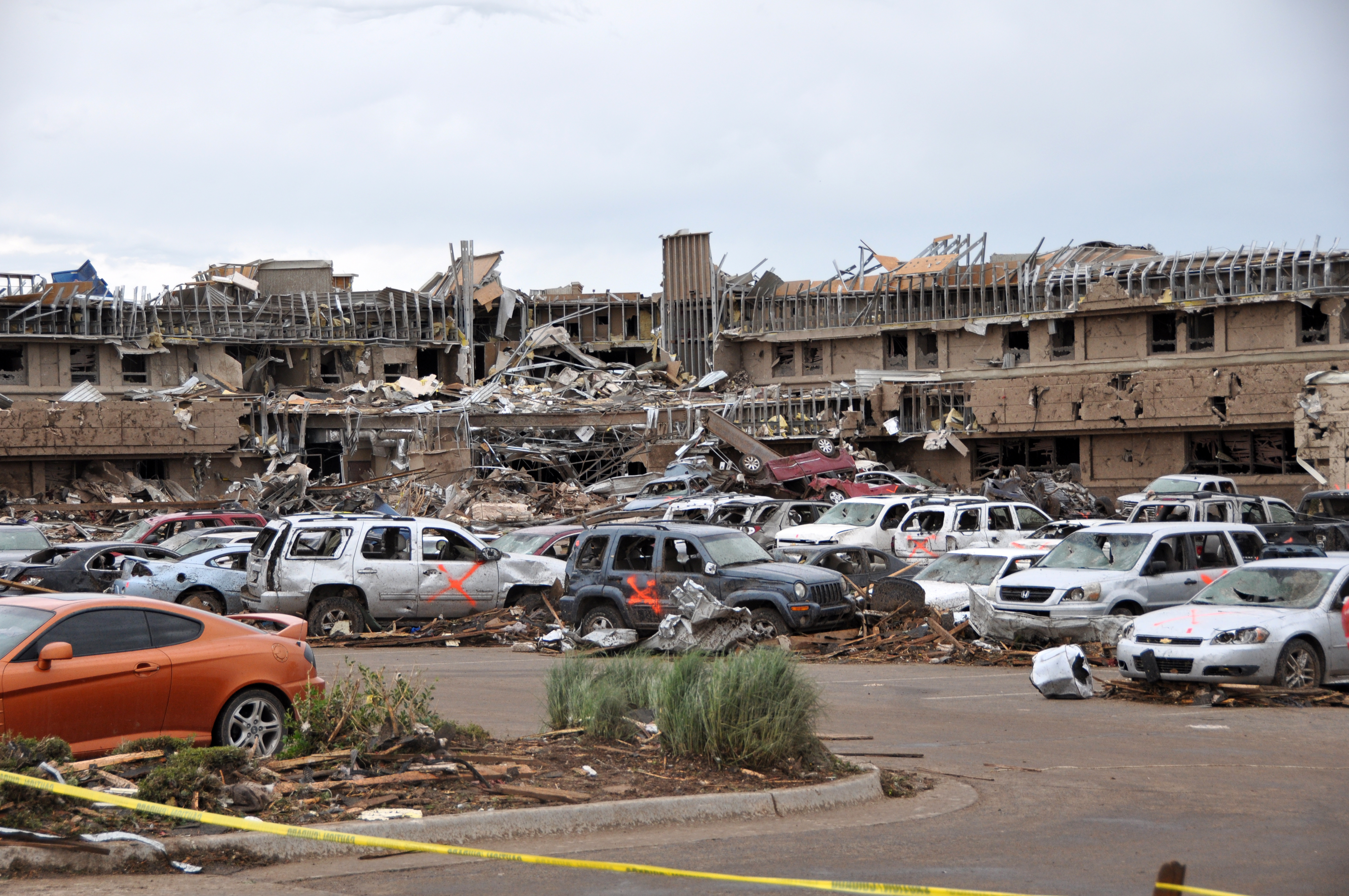 The storm-ravaged Moore Medical Center, part of the Norman Regional Health System, stands in Moore, Okla., May 21, 2013, a day after an EF5 tornado with winds exceeding 200 miles per hour tore through the Oklahoma city suburb. U.S. Service members assisted in disaster response efforts in the aftermath of the tornado, which killed 24 people, injured more than 200 and displaced thousands. Though the medical center was virtually destroyed, personnel reported no casualties. Cars nearby were marked with orange paint to indicate rescue workers had checked them for victims and cleared them.